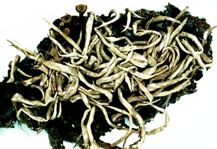 Cladonia decorticata (Flörke) Sprengel, 1827 (photograph of a herbarium specimen) Growing on soil in Jack Pine woods near Crumley Creek off US-68, Cheboygan County, Michigan, USA; collected and identified by Richard E. Riefner (No. 81-455, 14 Jul 1981); specimen is now in the Lichen Herbarium of the New York Botanical Garden.